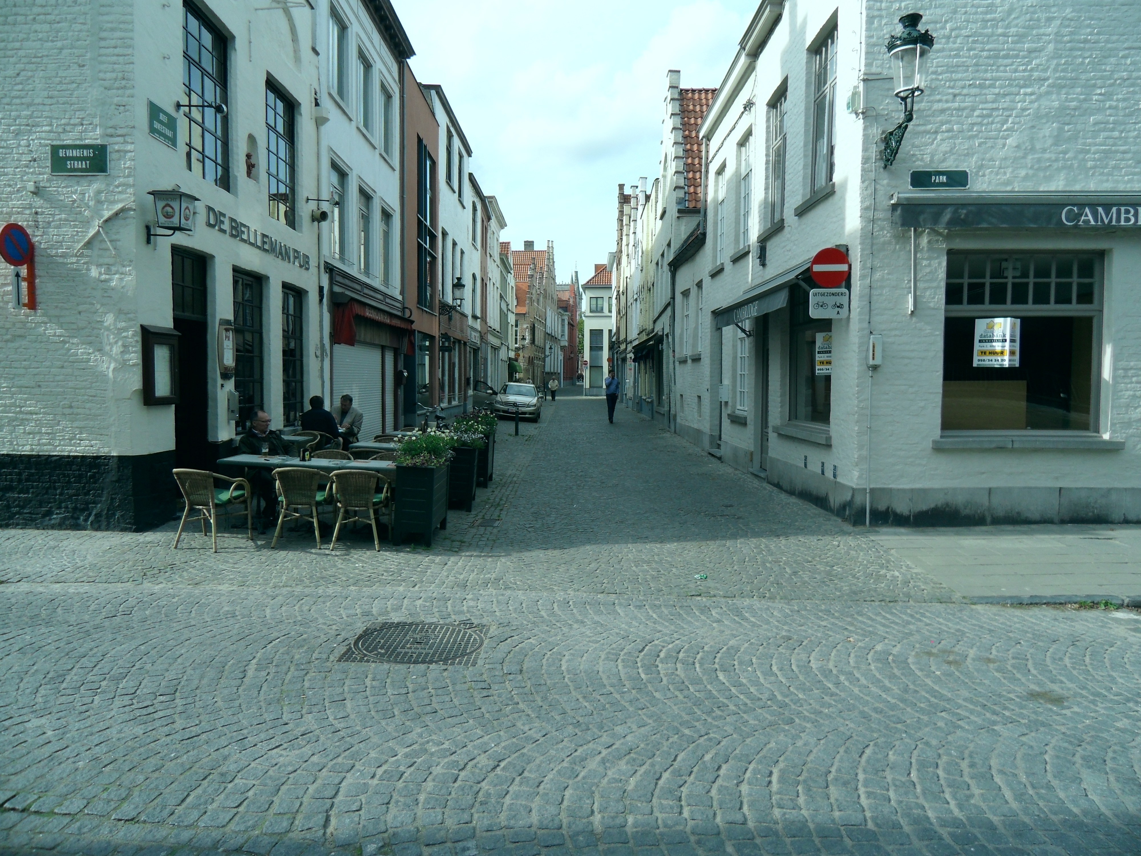 Jozef Suveestraat, Brugge